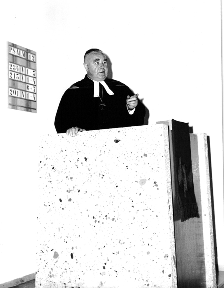 Johannes Schulze preaching